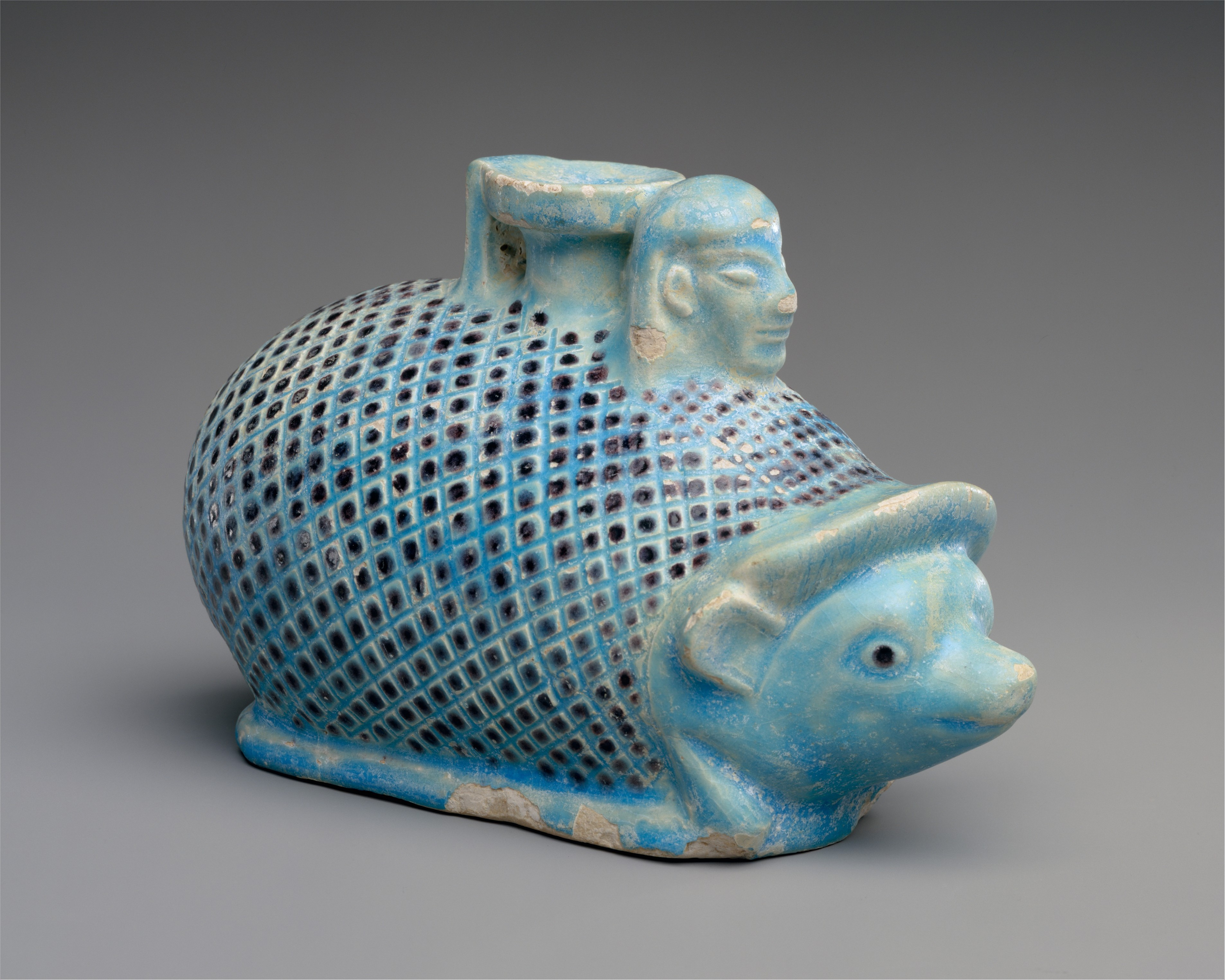 East Greek; Vase in the form of a hedgehog; Miscellaneous-Faience